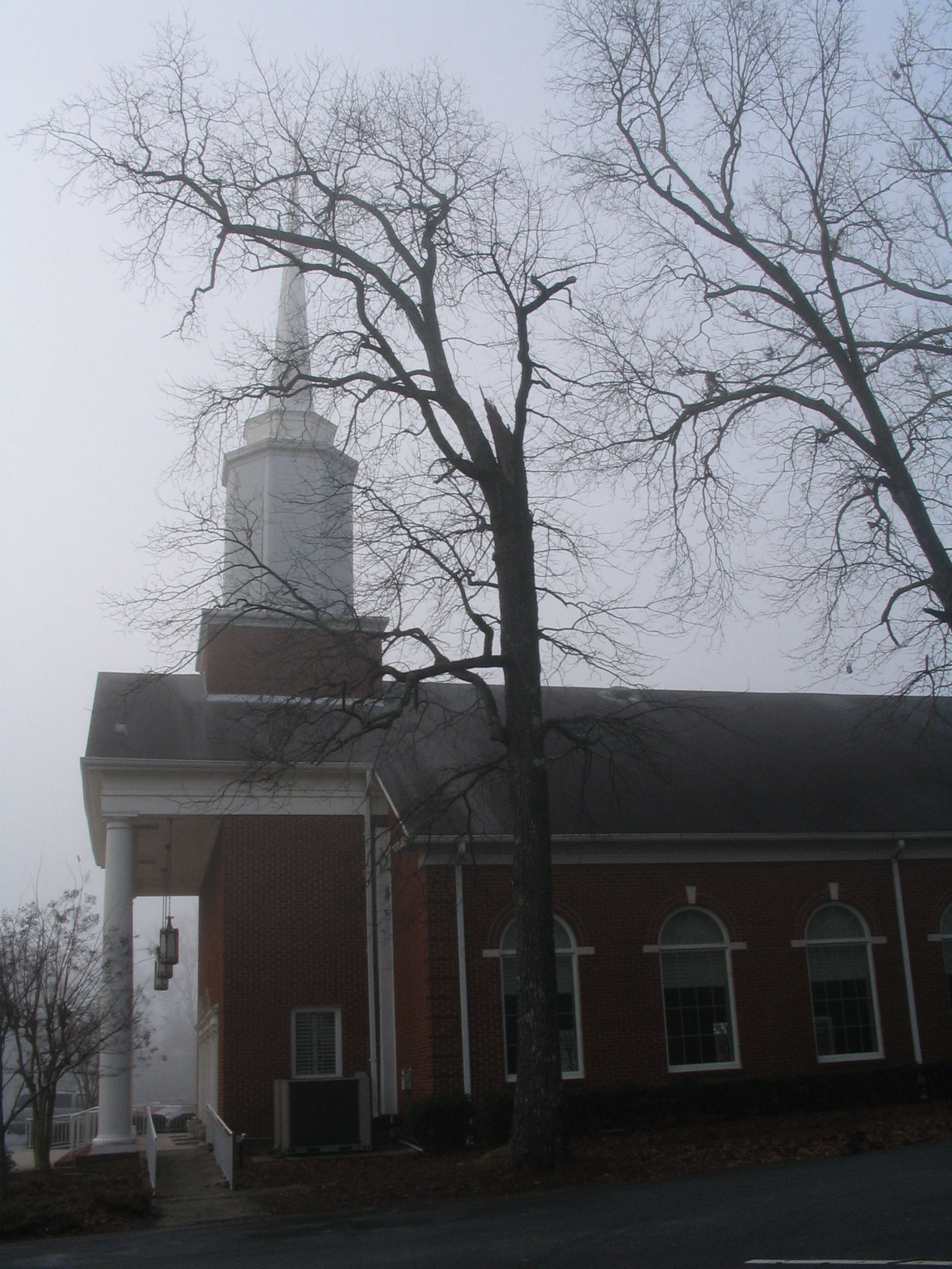 Rockdale Baptist Church is an independent Southern Baptist Church belonging to the Southern Baptist Convention.